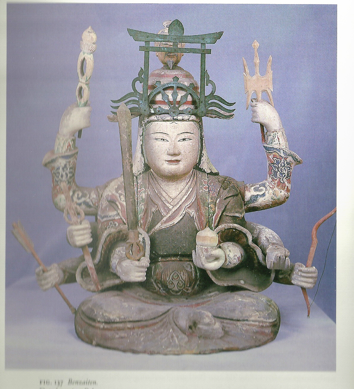 Wooden sculpture of the goddess Benzaiten at the Hogon-ji Temple.